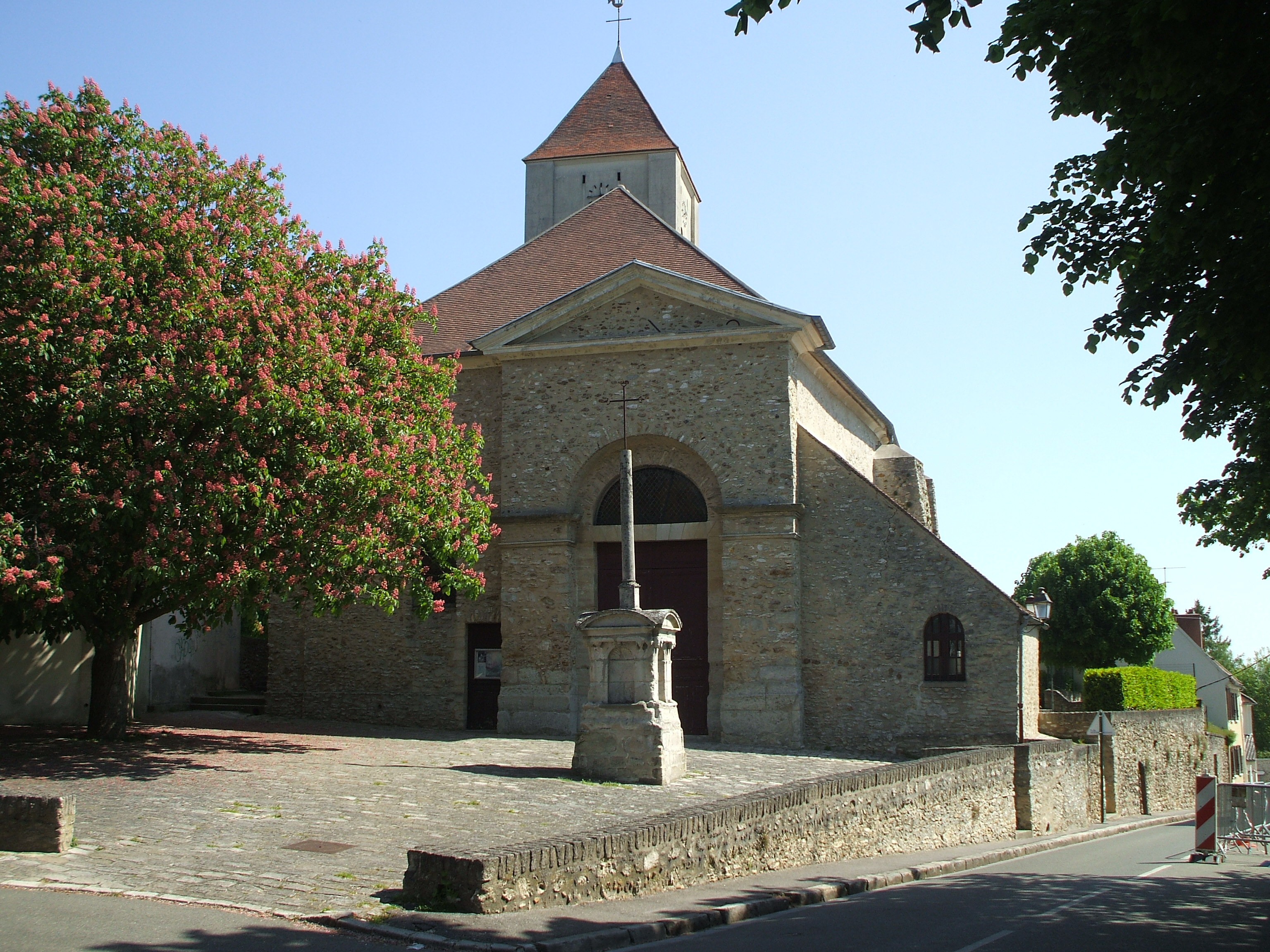 Montsoult church's val d'oise france